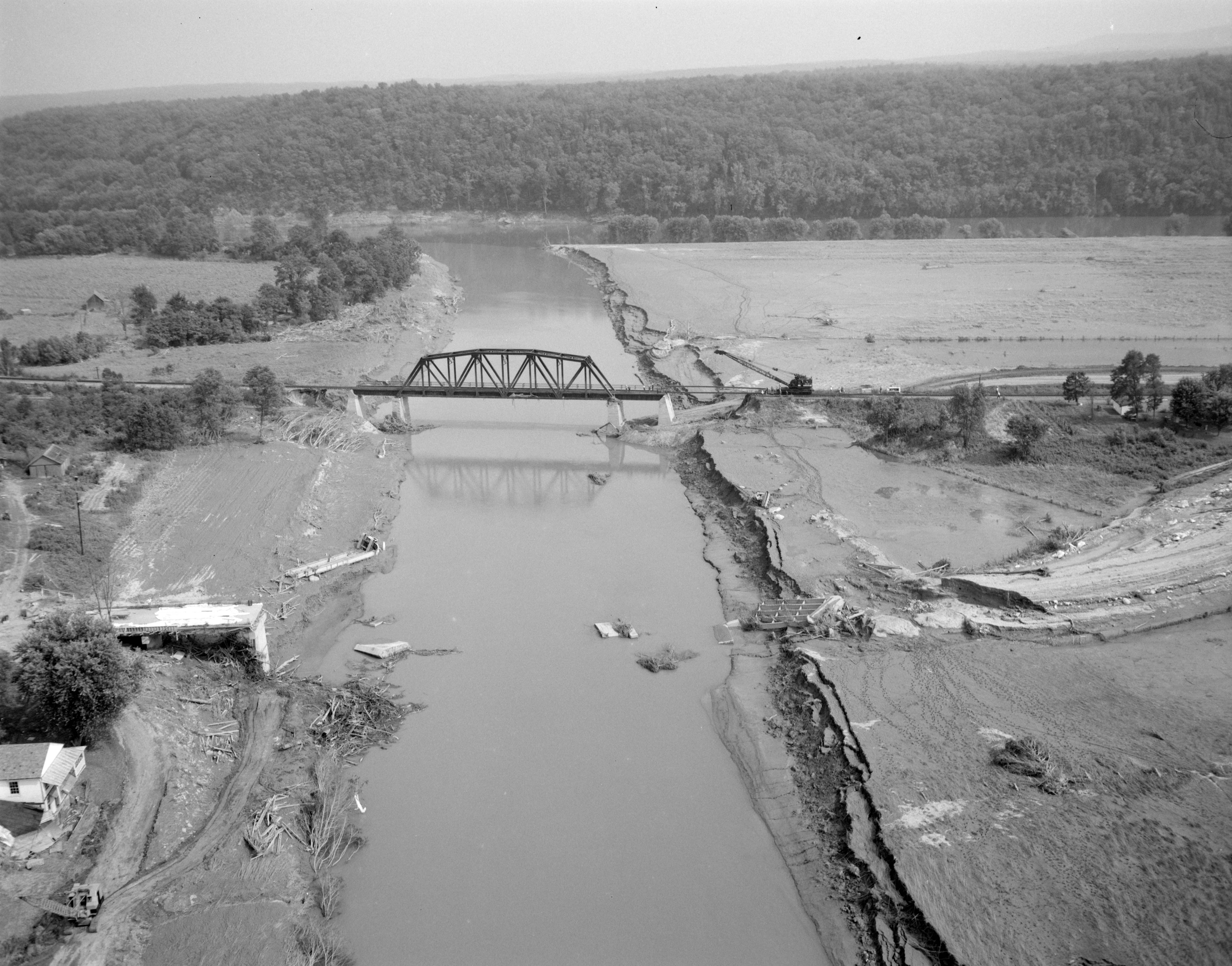 The Rt. 626 bridge over the Tye River was completely washed out by Hurricane Camille. Near the Rt. 655 intersection in Norwood, Nelson County. No. 69-2217, Virginia Governor's Negative Collection, Library of Virginia.